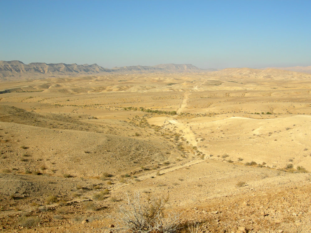 Center of Makhtesh Gadol, Negev, Israel.